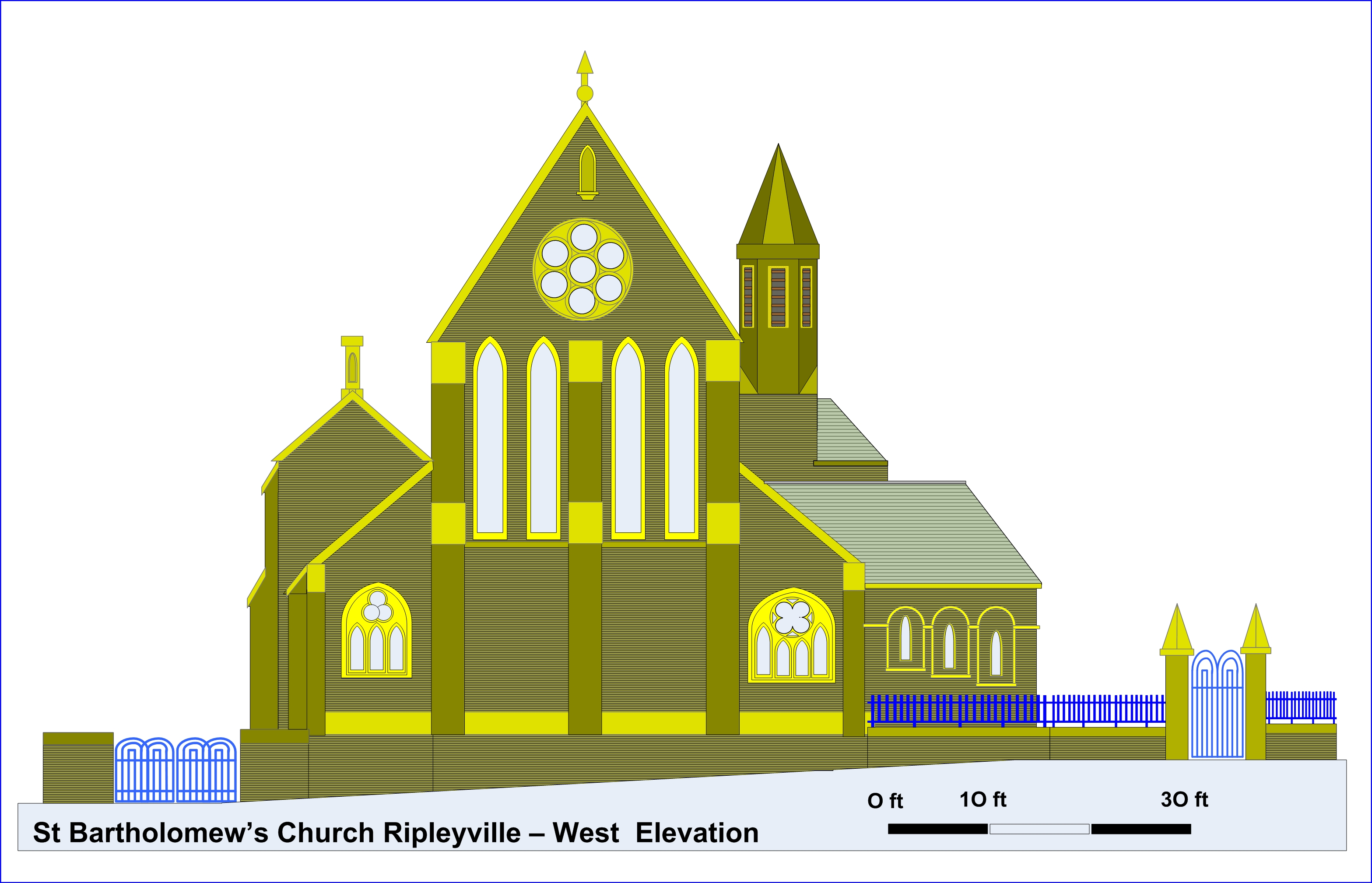 St Bartholomew's church Ripley Ville west elevation. Scale drawing.